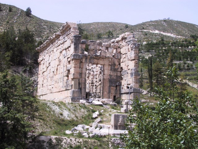 Lower Roman temple in Niha, Bekaa.